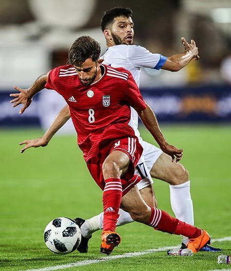 Ali Gholizadeh VS Uzbakistan. Gallery link.